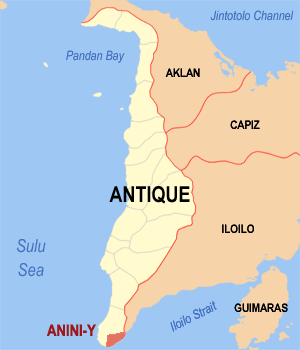 Map of Antique showing the location of Anini-y